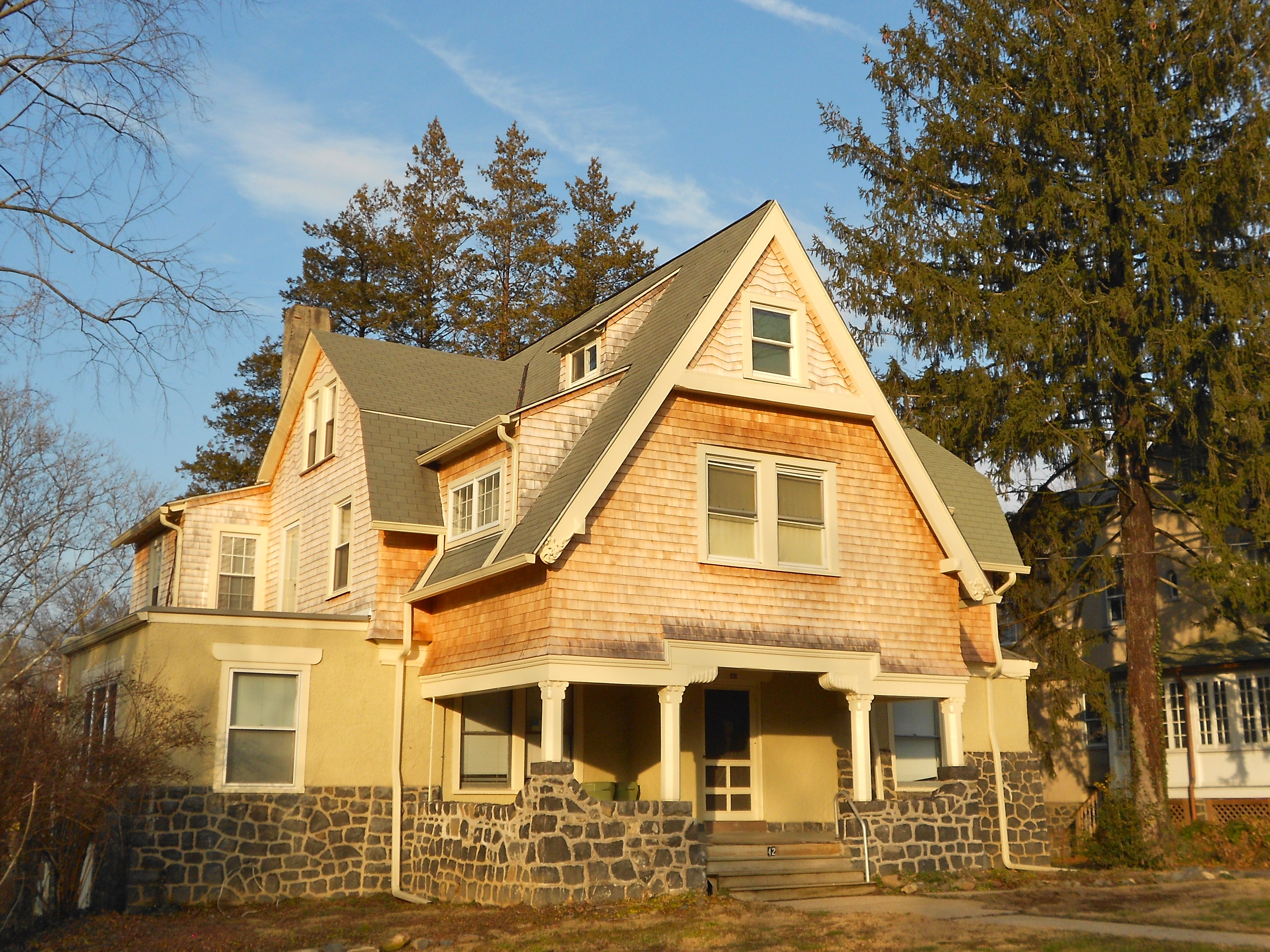 House on the north side of the 400 block of Midland Ave in Wayne Pennsylvania. Probably #425 or 427. Likely designed by William Lightfoot Price or the Price Brothers. House is undergoing some renovation so the paint is stripped back showing some details of the underlying wood, e.g. the carved beam ends, fairly typical of Price. Many Price houses on this street, where he worked in 1890.